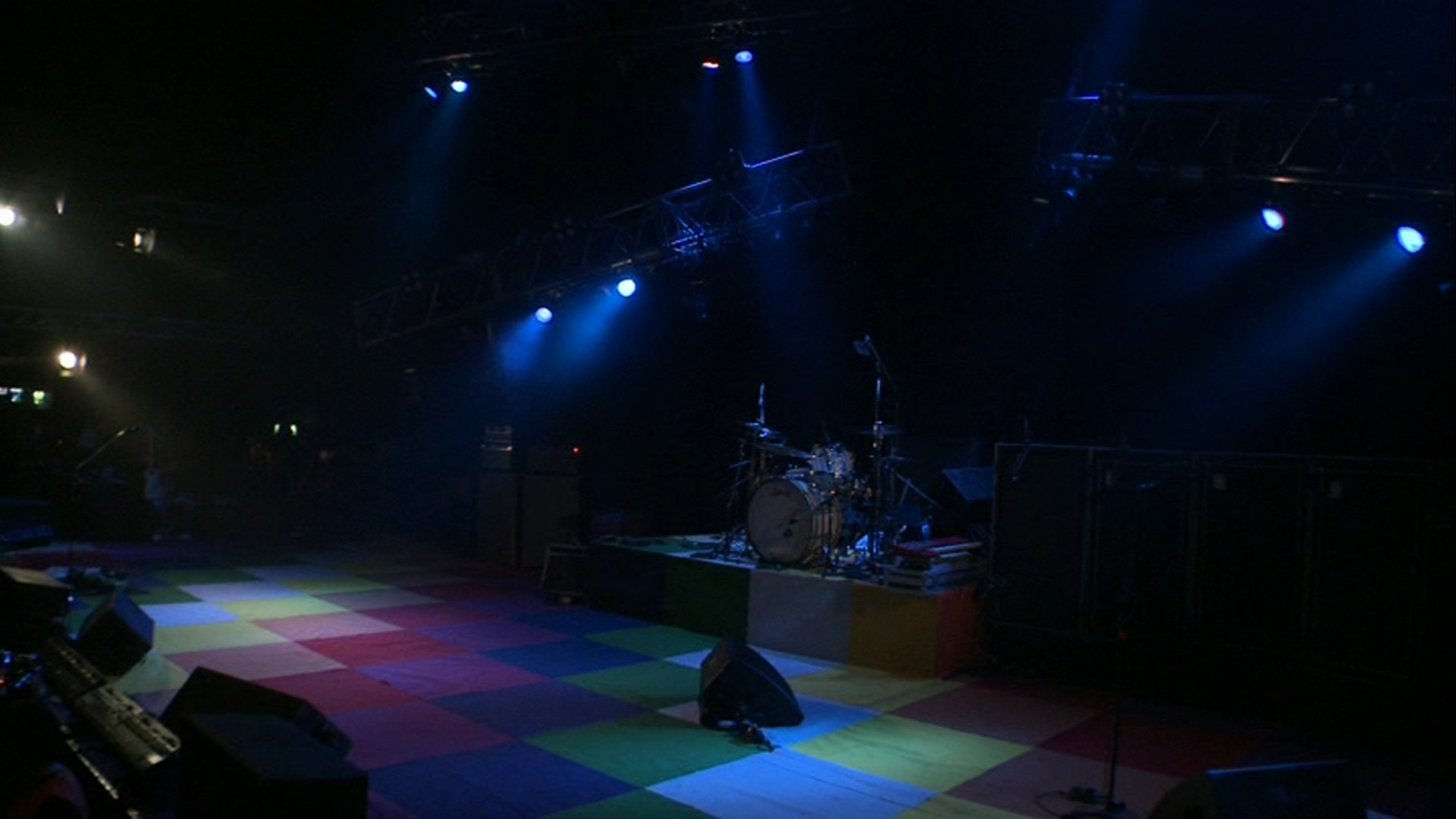 Recital de la banda de rock argentina Divididos y la bandera como homenaje.